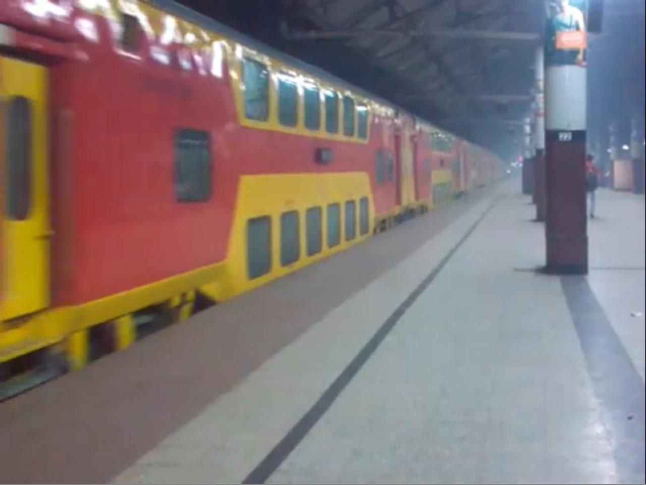 Double Decker Train arrives at Howrah Junction after a trial run.